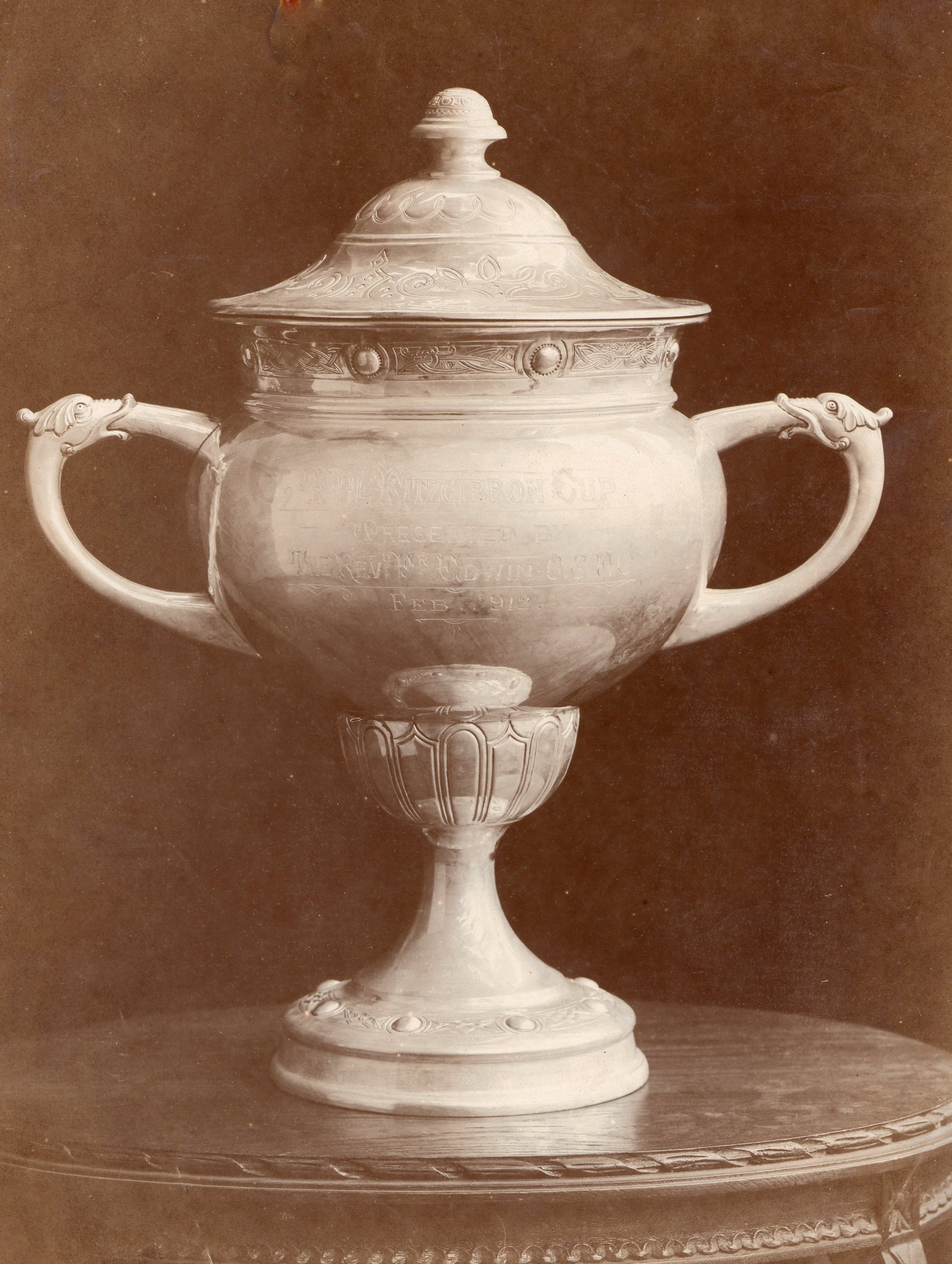 The 'Fitzgibbon Cup donated by The Rev Fr Edwin Fitzgibbon O.S.F.C. [Order of Saints Francis and Clare, a Franciscan religious order] for Inter-Collegiate Hurling competition. This photograph of the Cup dates from ca. 1912. The silver cup was made by Messrs William Egan & Sons, silversmiths, Cork, Ireland in February 1912. It is 24 inches in height. A detachable lid was lost in 1973 and never replaced. Old Celtic tracing designs are engraved around the edges of the trophy. The handles have open-mouthed creatures, probably fish. The cup was mounted on a mahogany plinth to which plaques with the names of the winning team were attached. Fitzgibbon family tradition places the cost of the trophy at £80. The Cup was the last Gaelic games trophy to be named after a living person